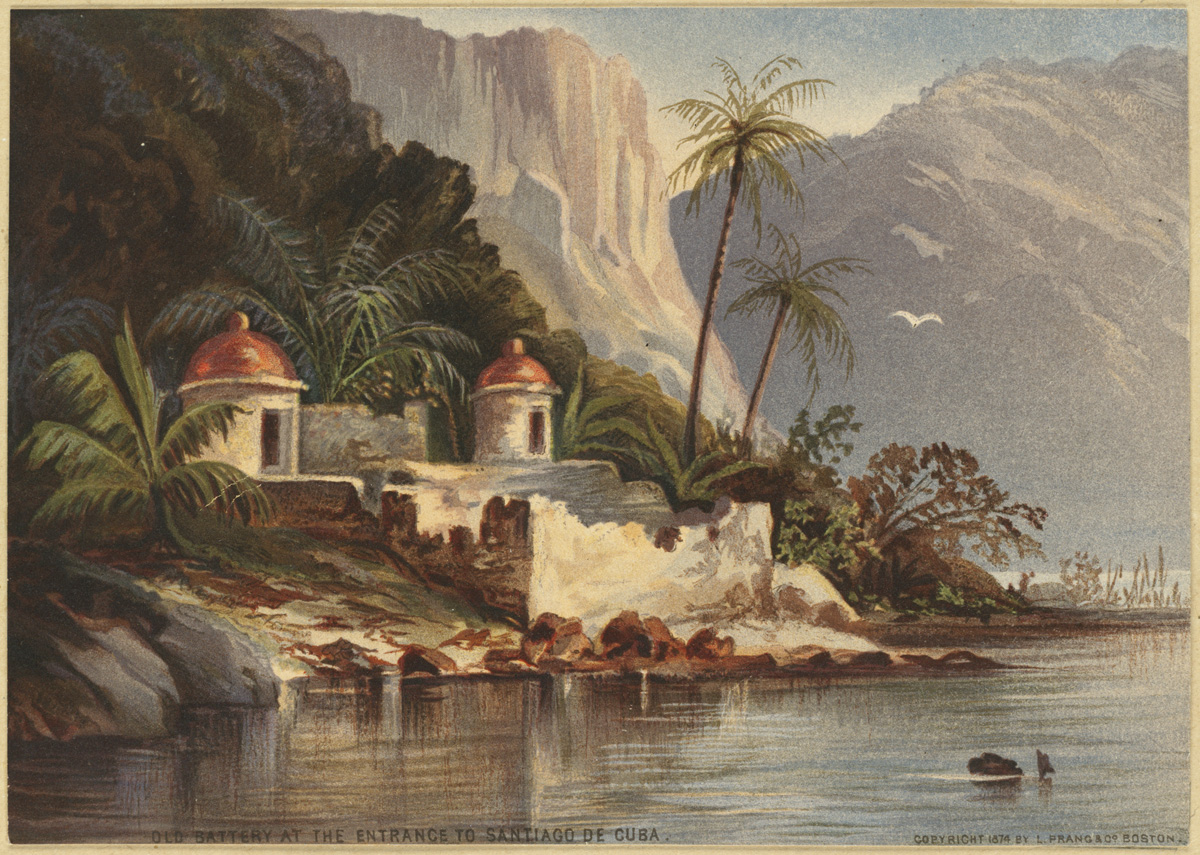 File name: 07_11_000864 Title: Old Battery at Entrance to Santiago Cuba Creator/Contributor: Perkins, Granville, 1830-1895 (artist); L. Prang & Co. (publisher) Date issued: Copyright date: 1874 Physical description note: Genre: Chromolithographs; Landscape prints Location: Boston Public Library, Print Department Rights: No known restrictions Flickr data on 2011-08-06: Camera: Sinar AG Sinarback 54 FW, Sinar m License: CC BY 2.0 User: Boston Public Library BPL